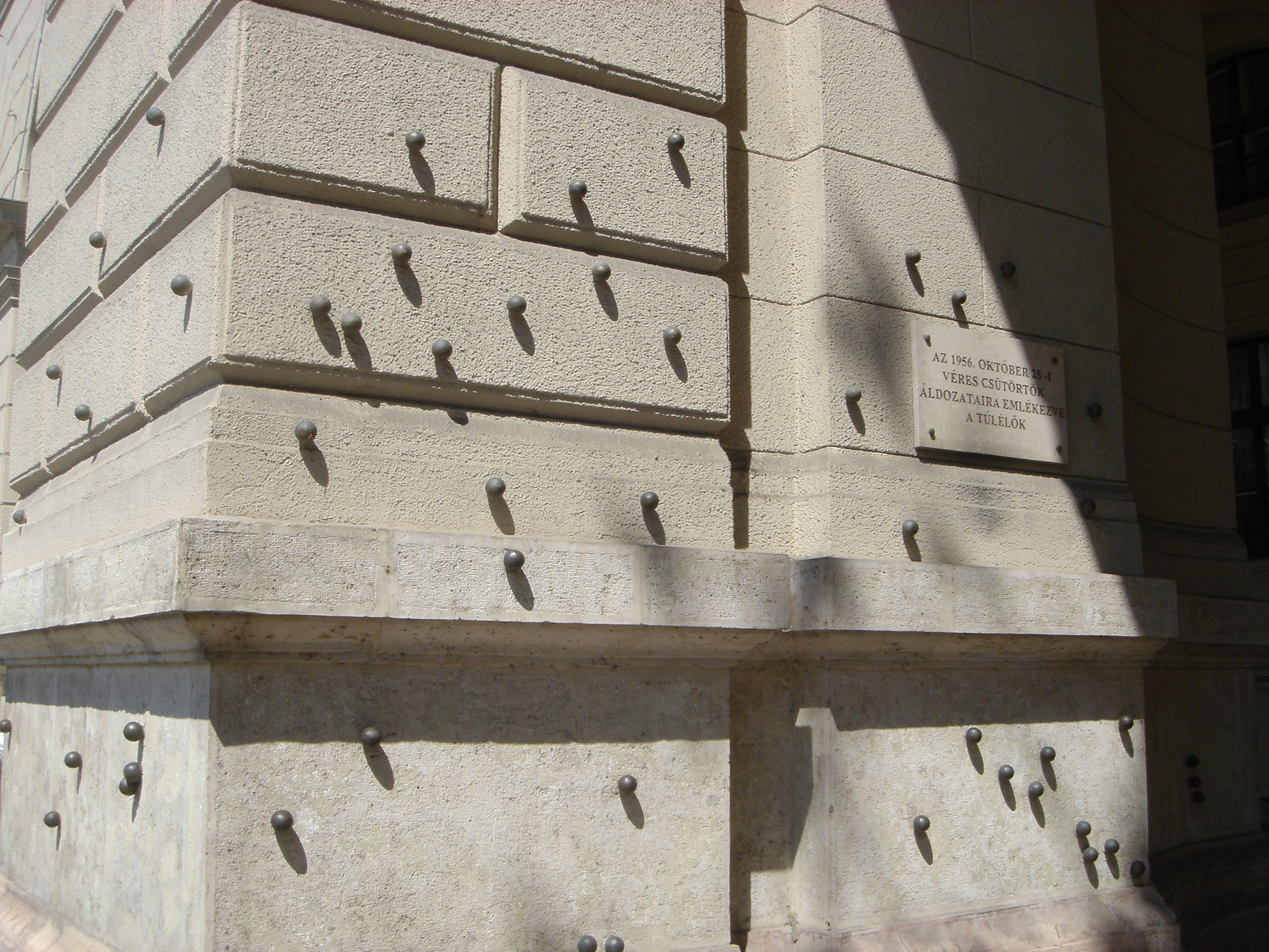 This is part of the restored Vidékfejlesztési Minisztérium. The small metal balls are symbolic of where the building was previously damaged by gunfire during the 1956 Hungarian Revolution.Jobbra az 1956. október 25. emléktáblája